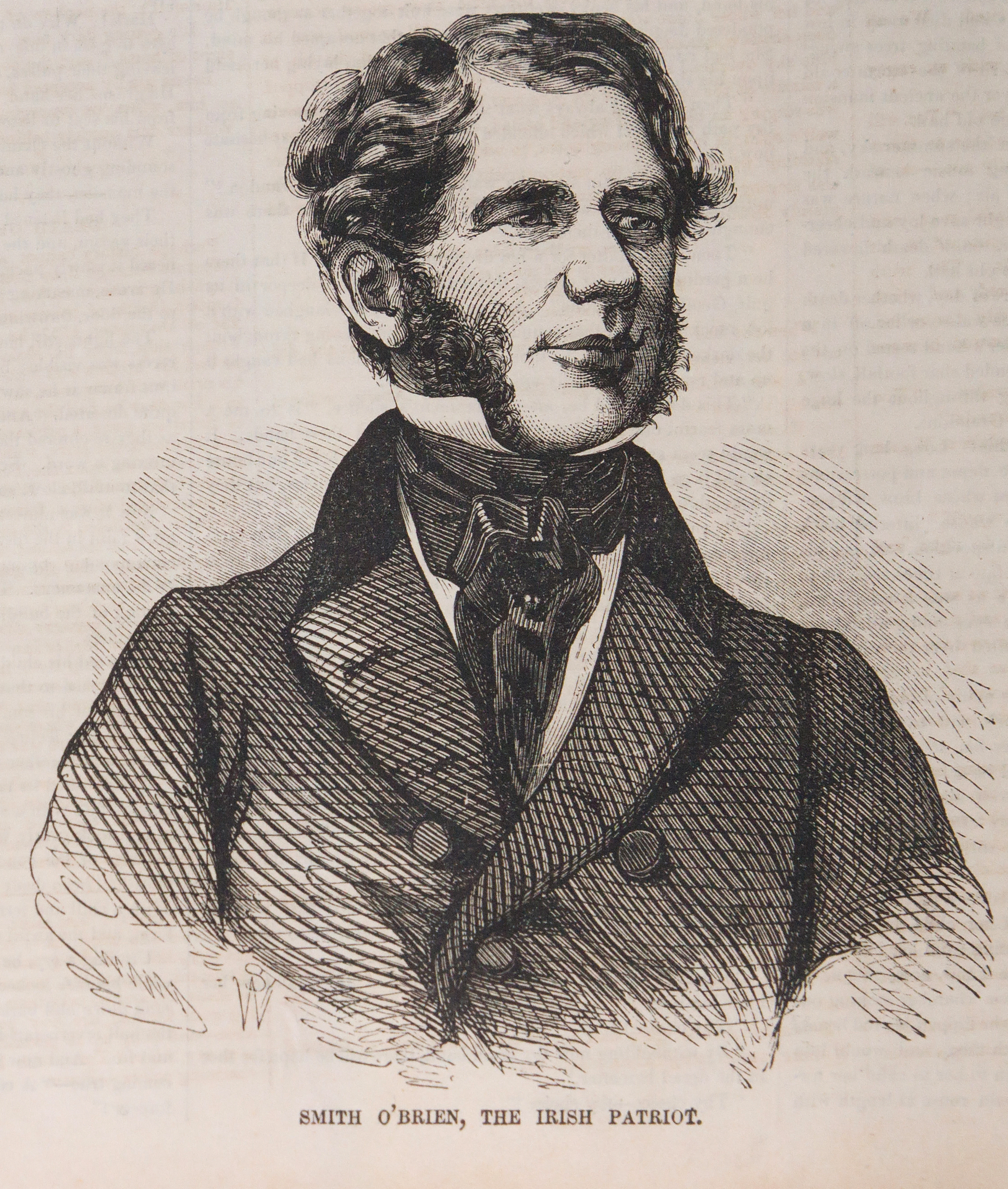 William Smith O'Brien, The Irish Patriot, National Museum of Australia, Canberra, Australia